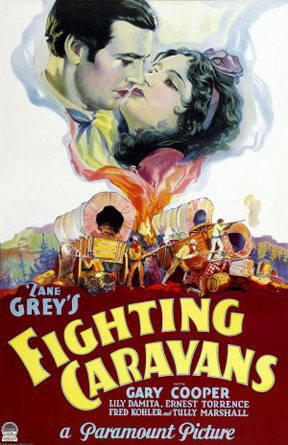 Poster for the 1931 film Fighting Caravans. Searches were done in both film and artwork for renewals in the years 1958 and 1959. There were no renewals for the title in motion pictures and no renewals for Paramount in the artwork category for both years. There's no evidence of renewal for the film and material related to it.